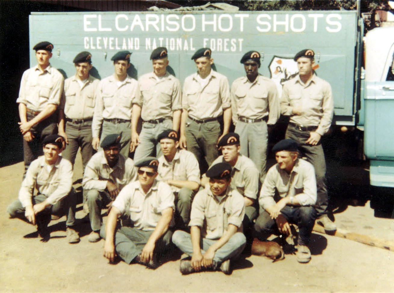 El Cariso Hotshots Crew 2 - October 1966 Left to right, Back: Glen Spady, Pat Chase, Pete Achberger, Fred Danner, John Figlo, Joe Smalls, Mike White Middle: Jerry Smith, Joe Beaty, Ken Barnhill, Frank Keesling, Tom Rother Front: Richard Leak, Raymond Chee From Crew 2: John Figlo, Mike White, Ken Barnhill, and Raymond Chee, died from burns received on the Loop Fire of November 1, 1966. Carl Shilcutt and Fred Danner died in the hospital at a later time.